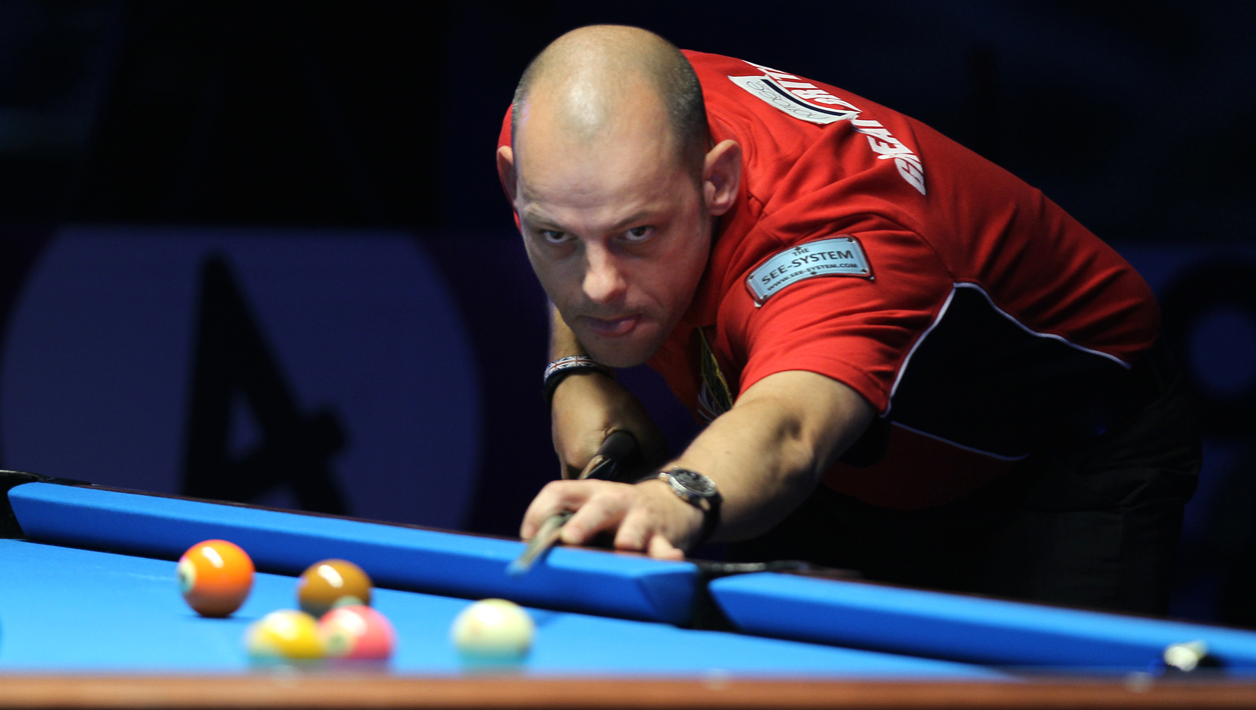 Britain's Darren Appleton in action during the World 9-Ball Pool Championship in Doha. Picture by Vinod Divakaran